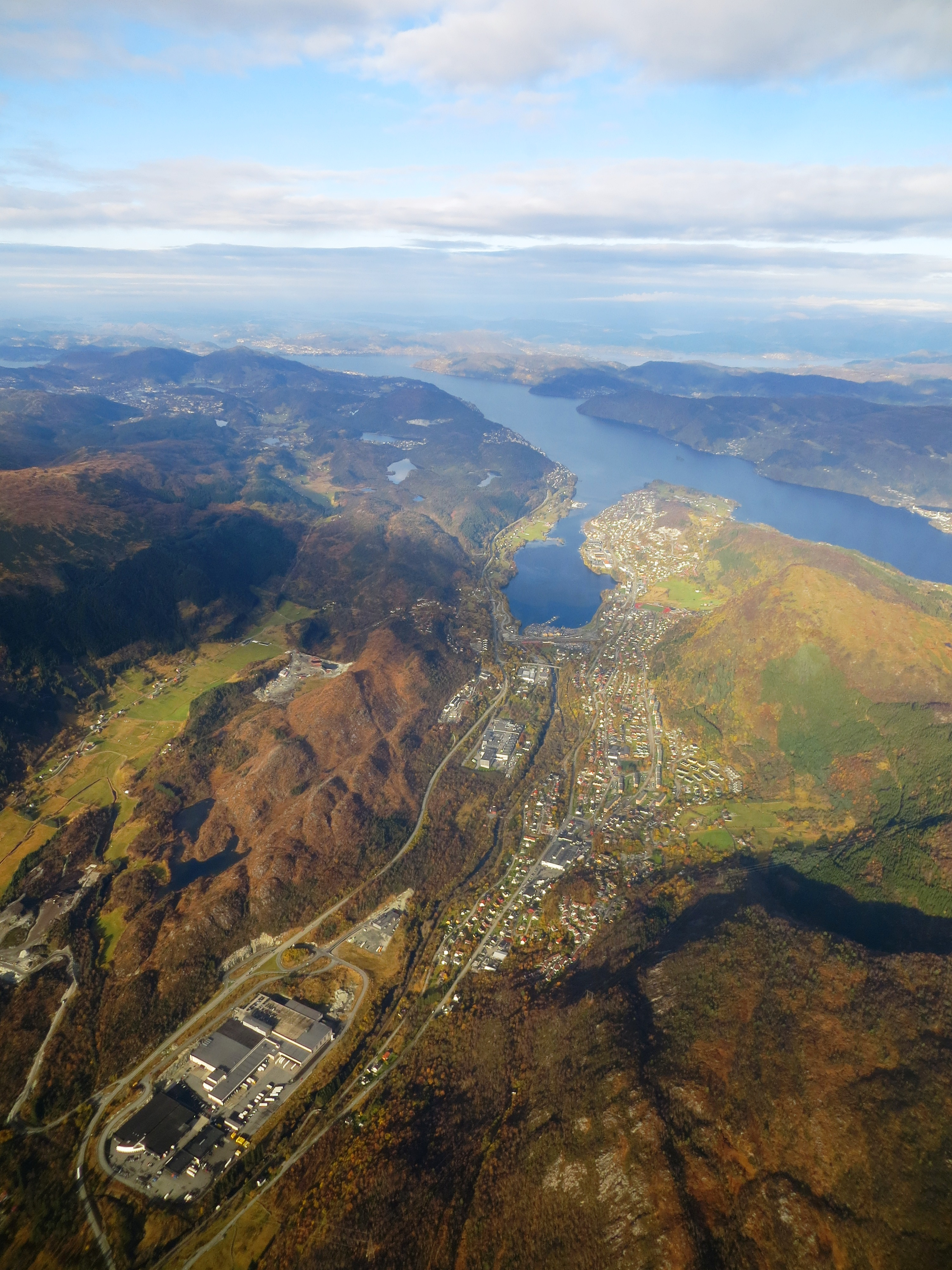 Indre Arna, an industrial town east of Bergen, in the municipality of Bergen by Sørfjorden inlet. Island of Osterøy in the background.